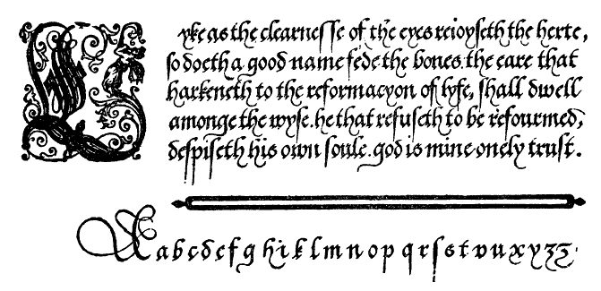 Bastarde Angloise by Beauchesne